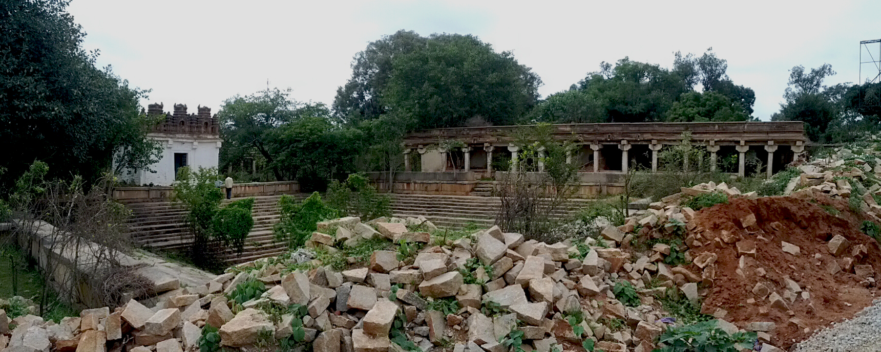 Pre-Historic Site Chikkajala